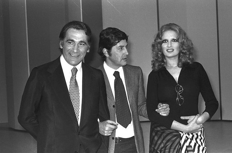 From left to right the Italian actor Alberto Lupo, the director Antonello Falqui and the singer Mina. The former and the latter were presenters of Teatro 10, a TV show broadcast by RAI; Antonello Falqui was its director.